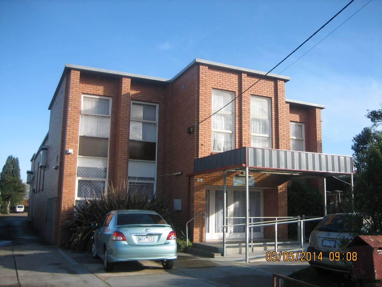 Ukrainian School in Noble Park